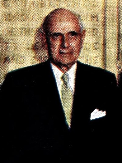 Photo of Stephen L Richards, a member of the Quorum of the Twelve Apostles (1917-1951) and the First Presidency (1951–1959) of The Church of Jesus Christ of Latter-day Saints.